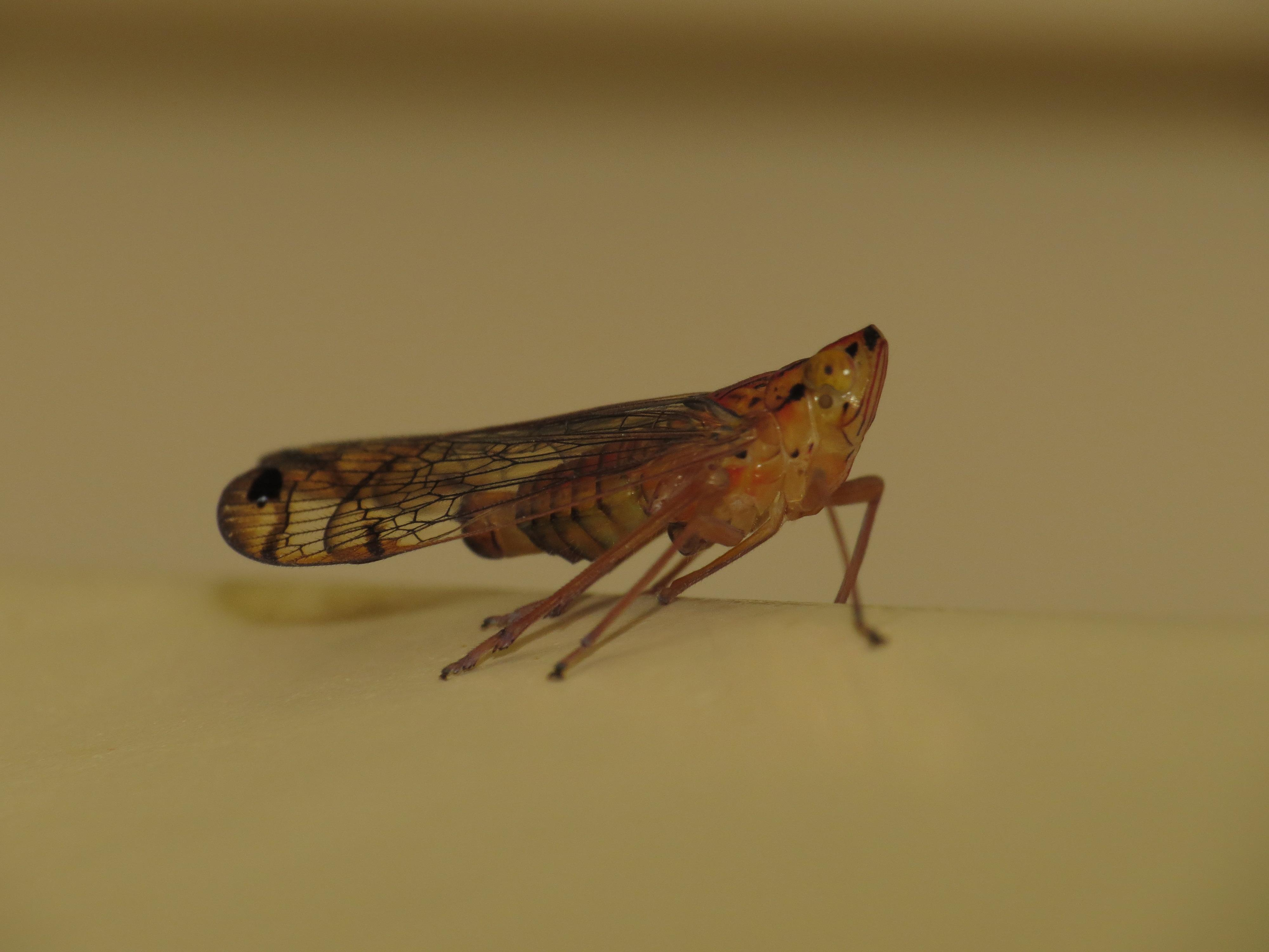 Magia subocellata Distant, 1907, Clump Point, Mission Beach, QLD, 23 November 2014